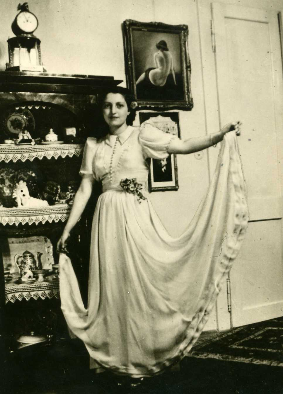 Hannah Senesh